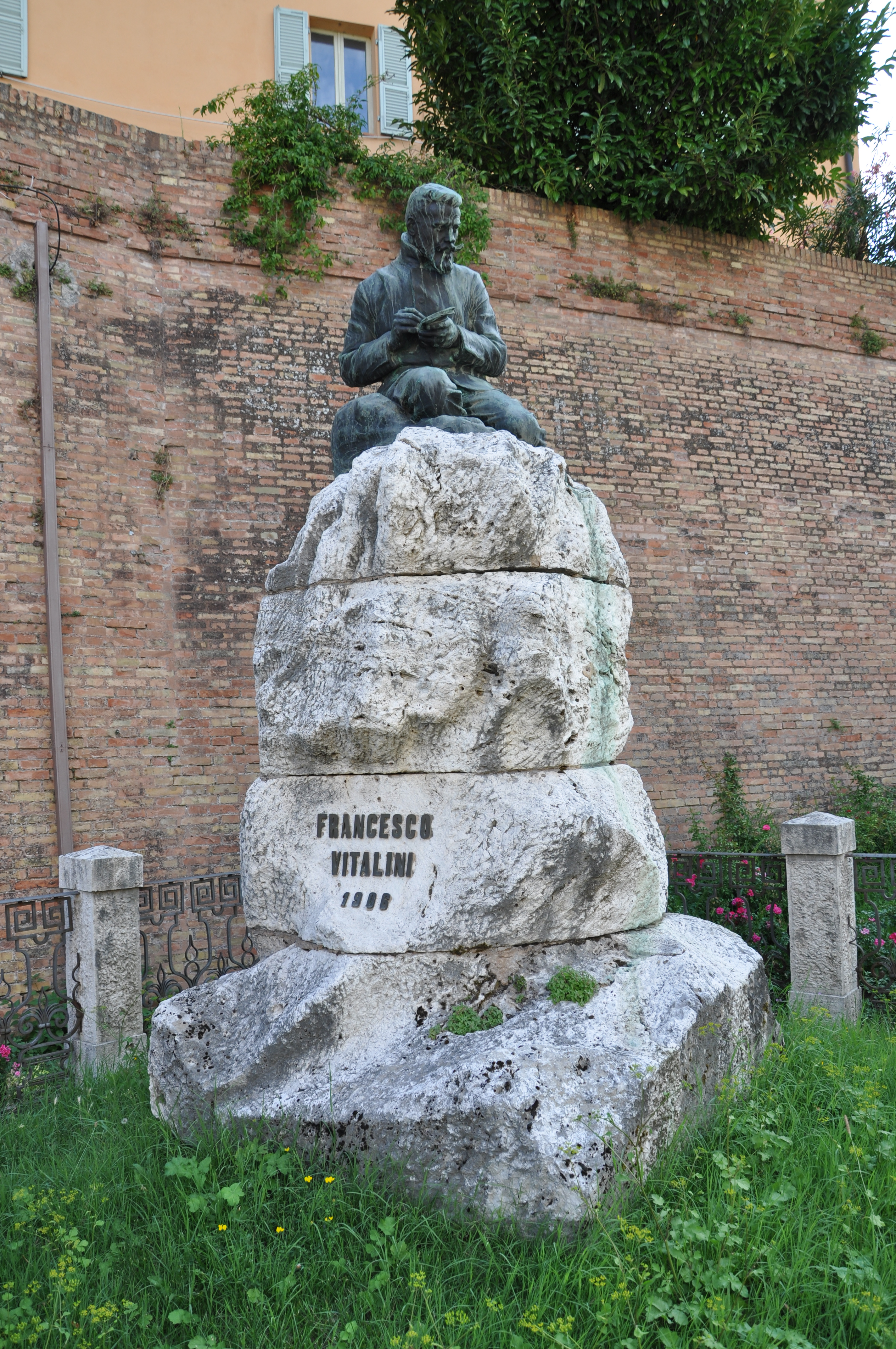 The statue of Francesco Vitalini in Camerino (Italy)